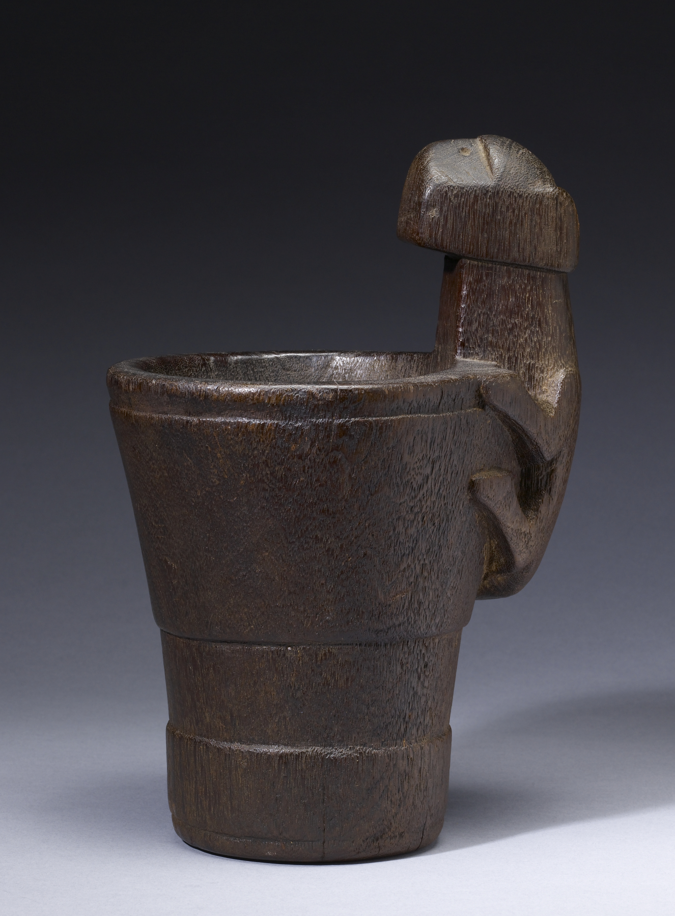 "Keros" were conical drinking vessels used throughout the Inca empire for the ritual consumption of "chicha" (maize beer). While the elite drank from gold and silver "keros," local administrators exchanged wooden "keros." The jaguar-like creature clinging to this "kero's" rim may be a "katari," a fantastic animal combining feline and reptilian characteristics.